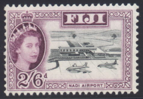 1959 2/6 postage stamp of Fuji illustrating Nadi Airport